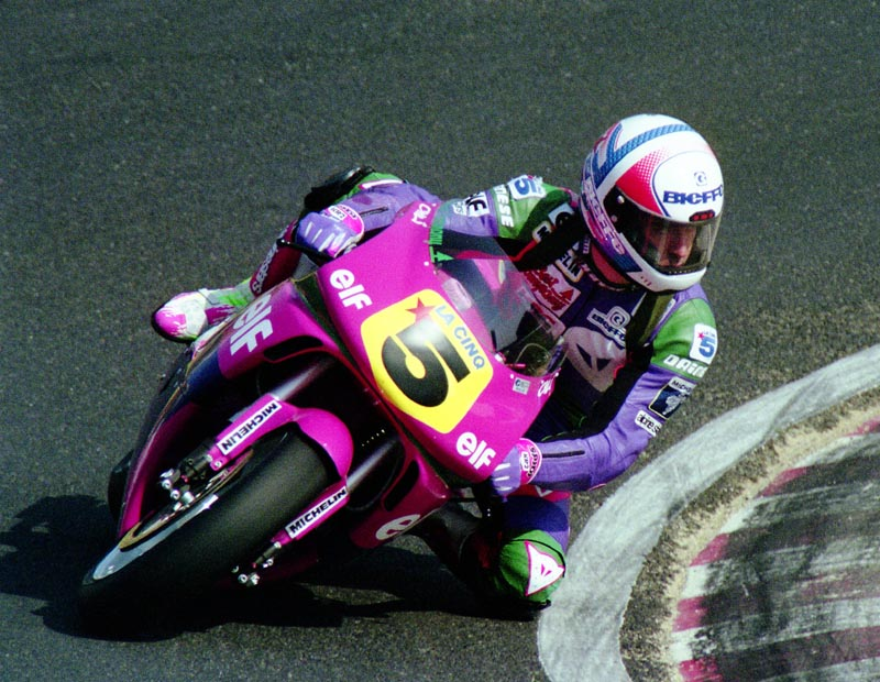 Pierfrancesco Chili, at Japanse Grand Prix 1990